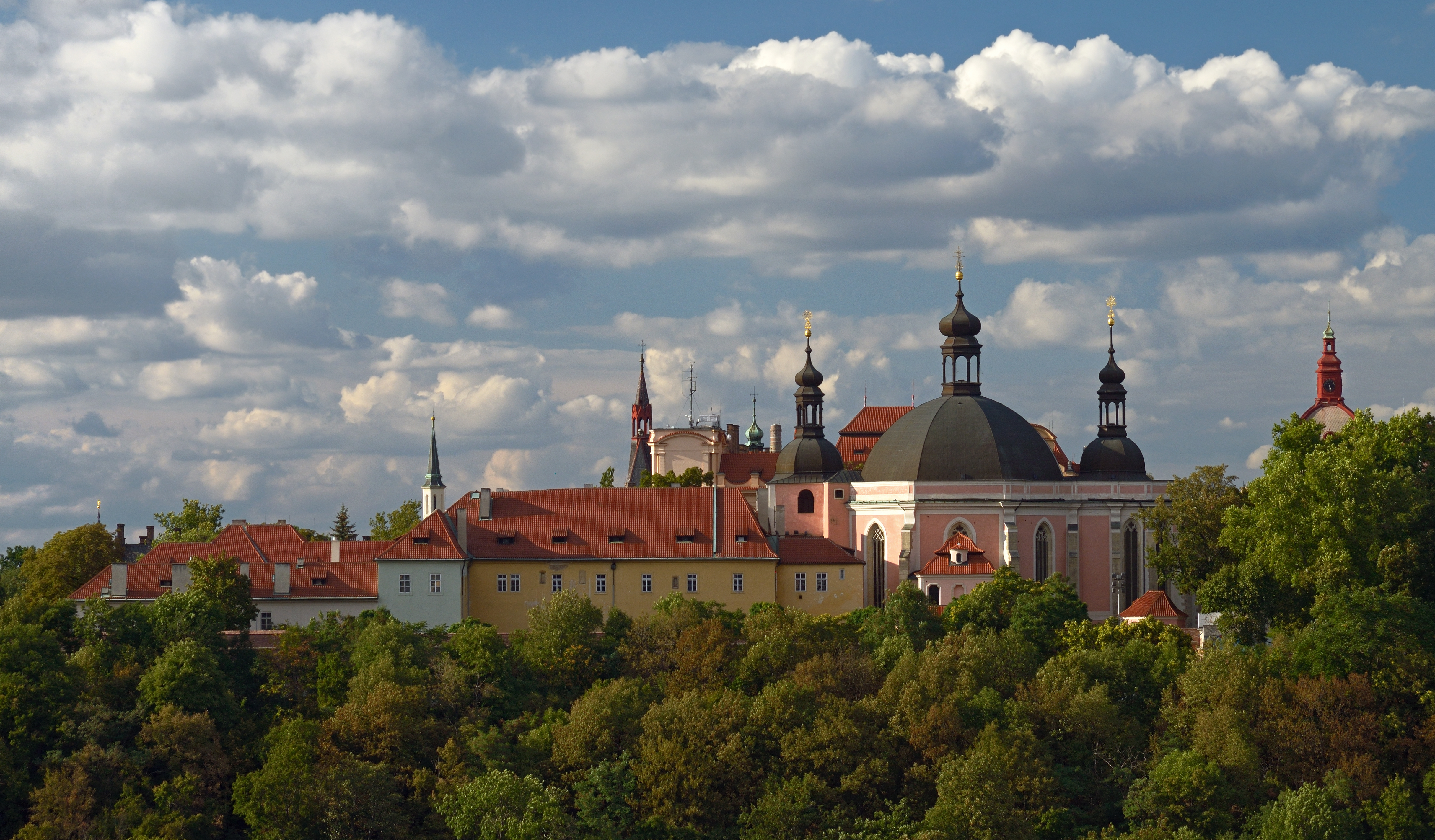 The Church of Virgin Mary and St. Charles the Great at Karlove. Prague, Czech Republic